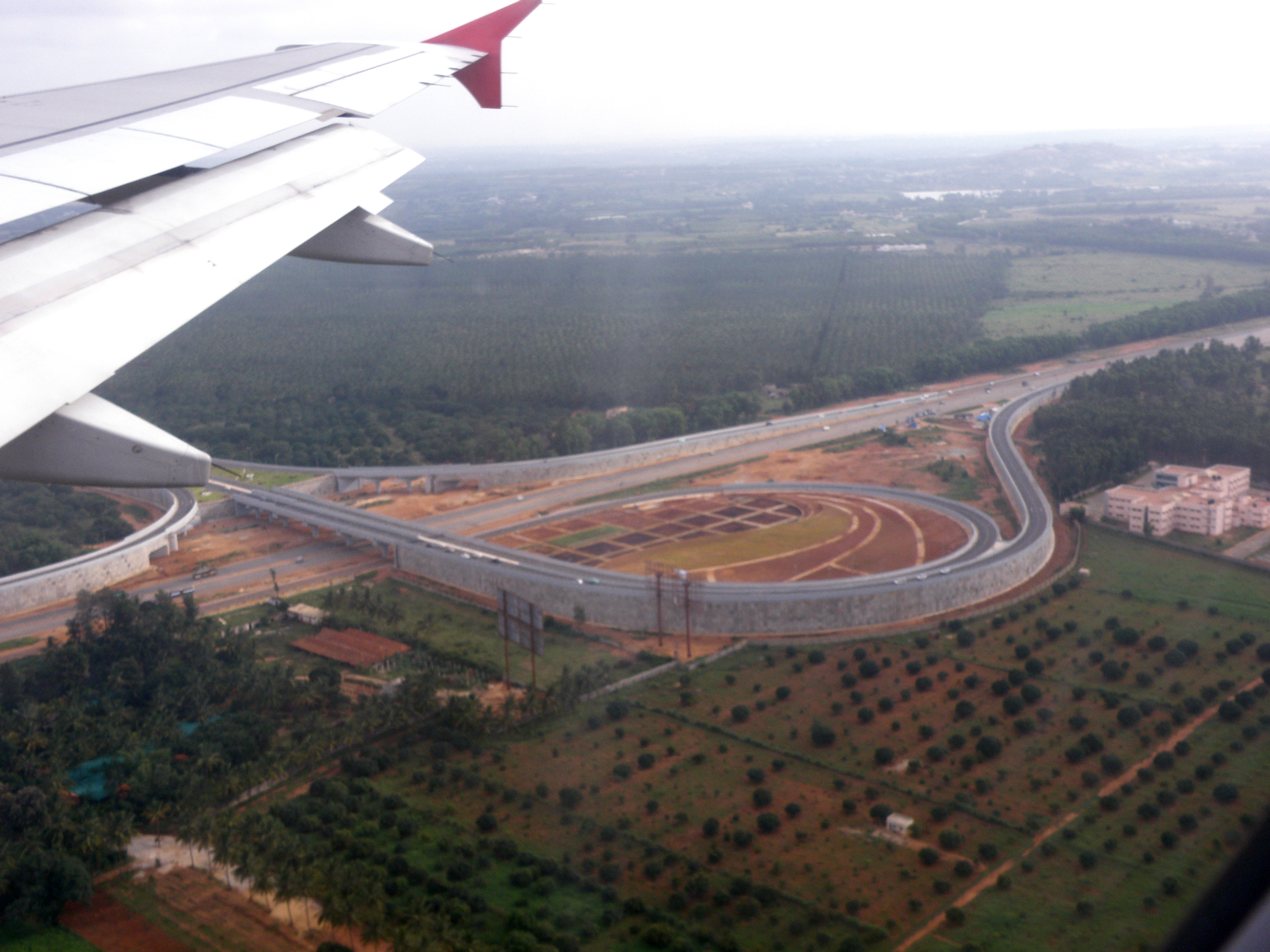 Trumpet interchange connecting to Bengaluru International Airport.